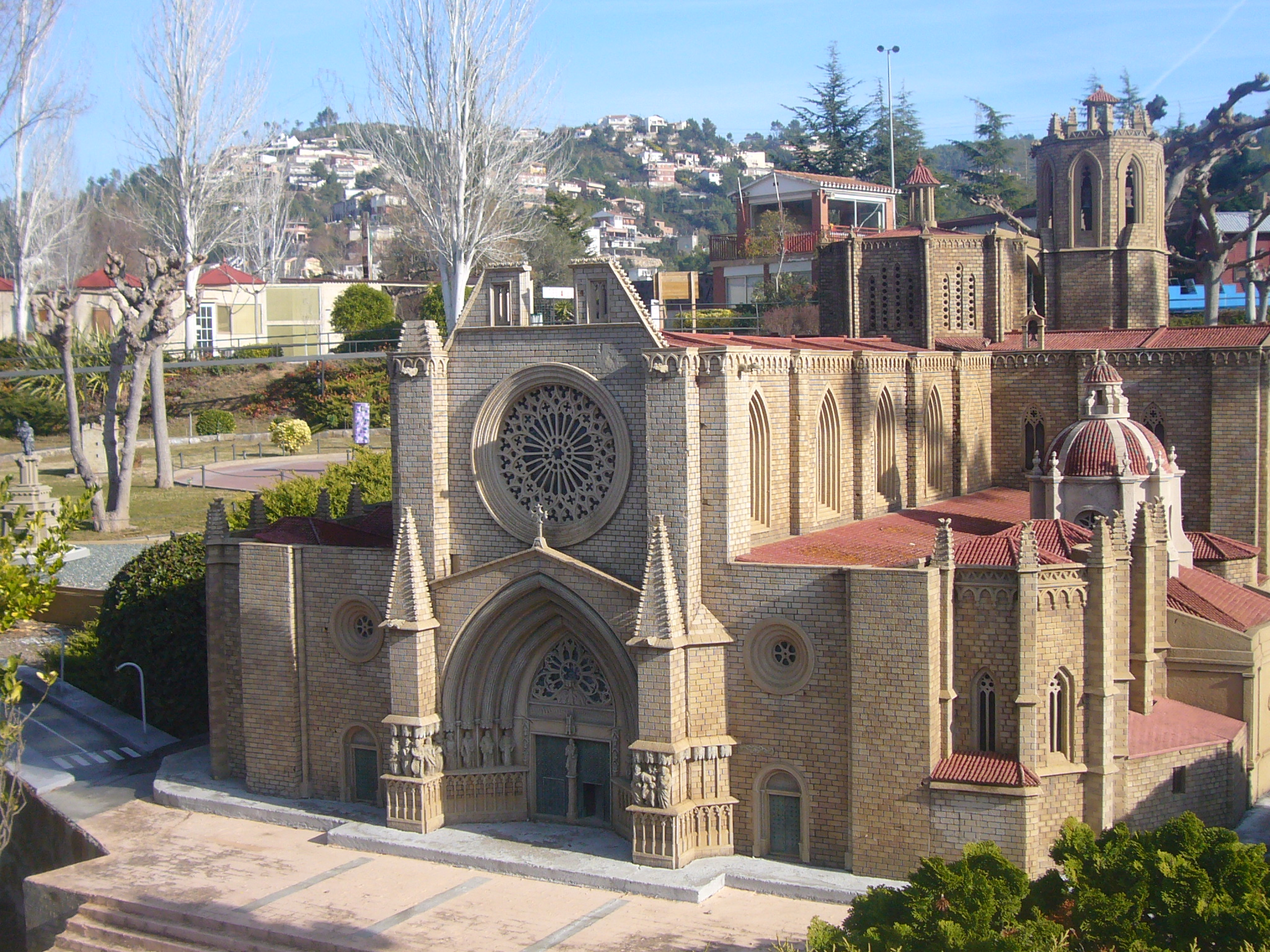 Scale model at the "Catalunya en Miniatura" miniature park : Cathedral of Tarragona